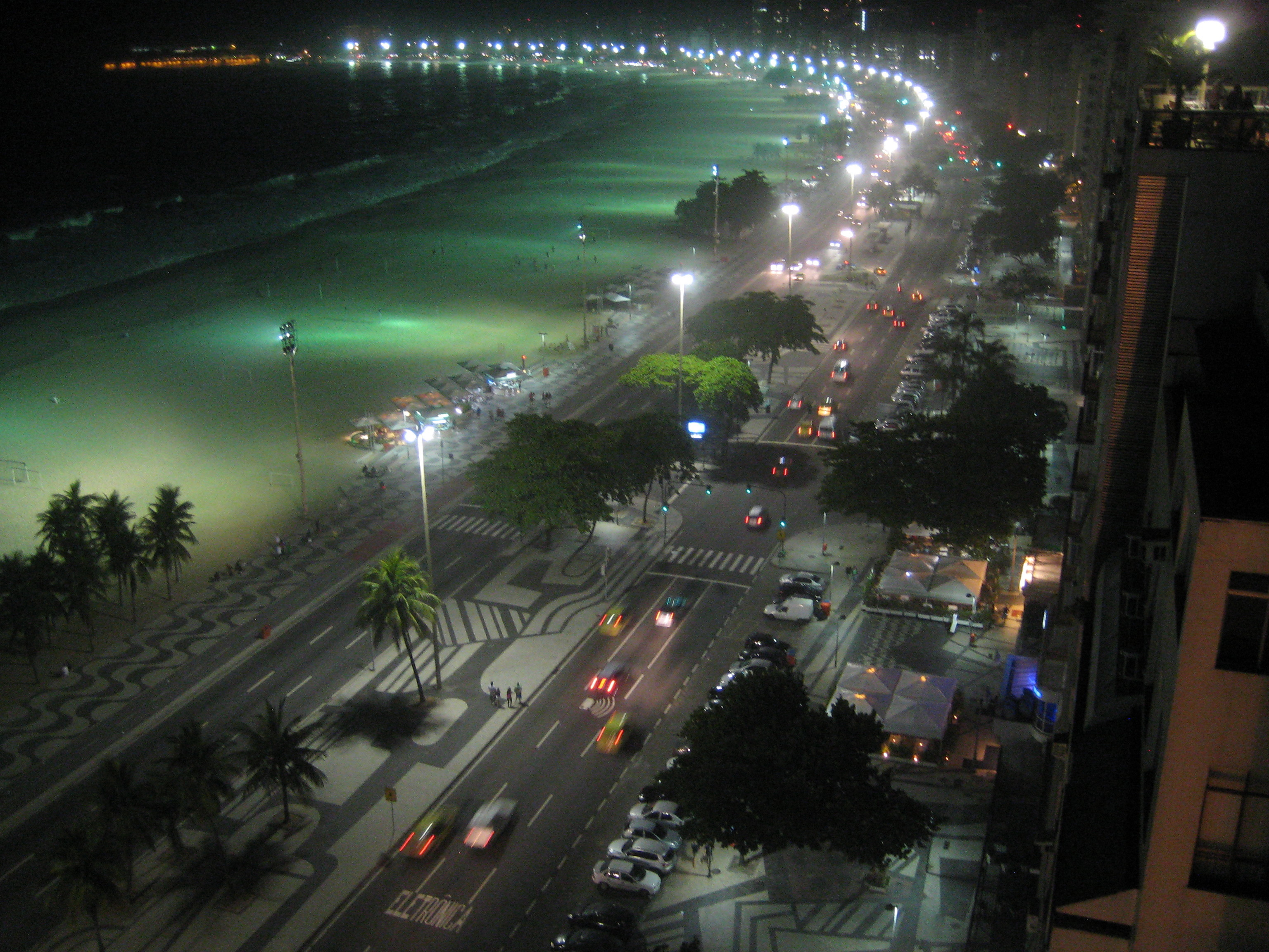 Copacabana at night